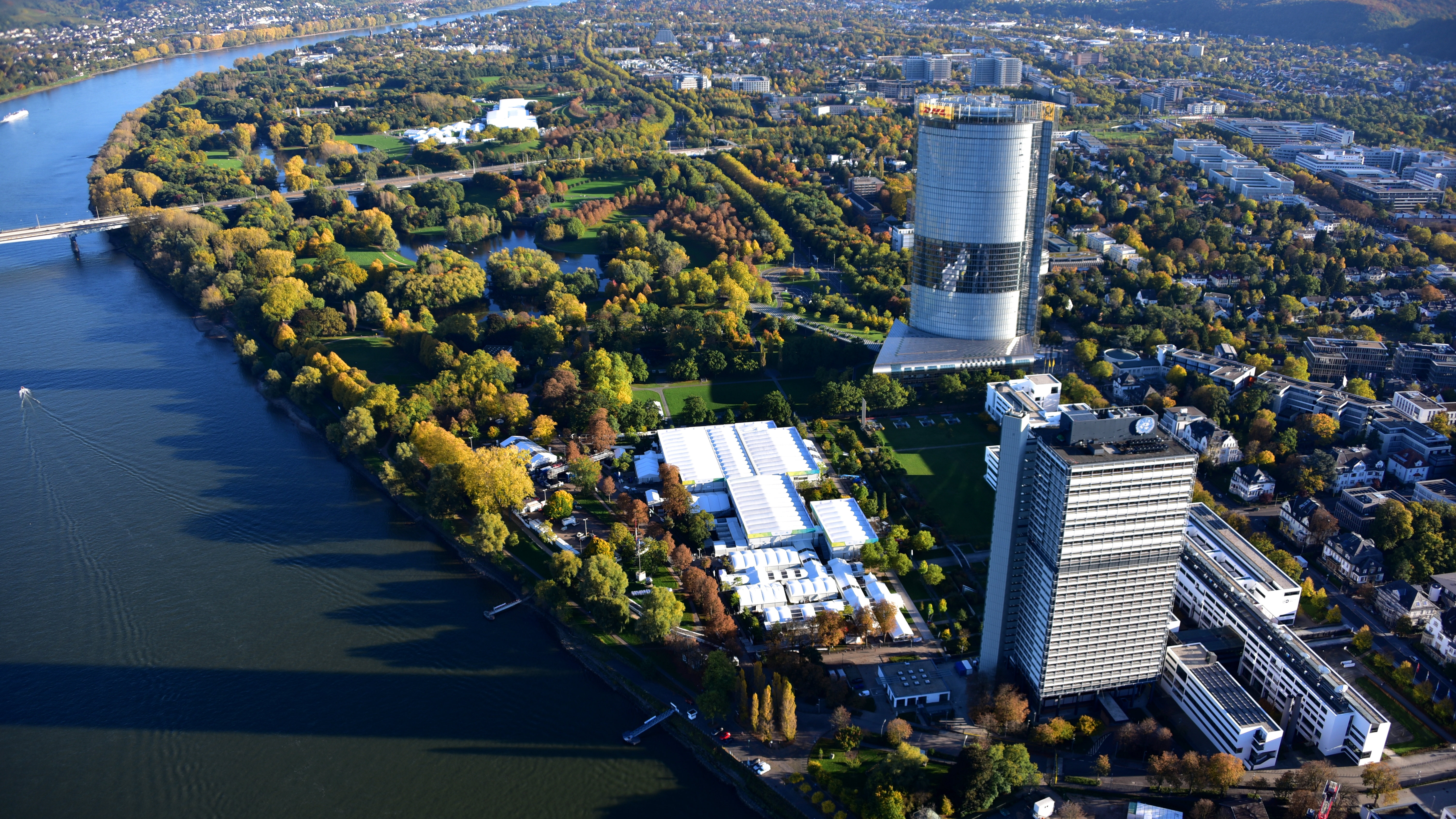 'Bula'-zone (= 'welcome' in Fiji language), near river Rhine, a few days before United Nations Climate Change Conference in November 2017. One of the skyscrapers is the so called Langer Eugen, former a building for members of parliament in Germany, today part of UN Campus in Bonn. In the background: The second COP23 area in Rheinaue park (view a → second photo), with white tents and structures at a little lake near one of water recycling and wastewater treatment plants in Bonn.